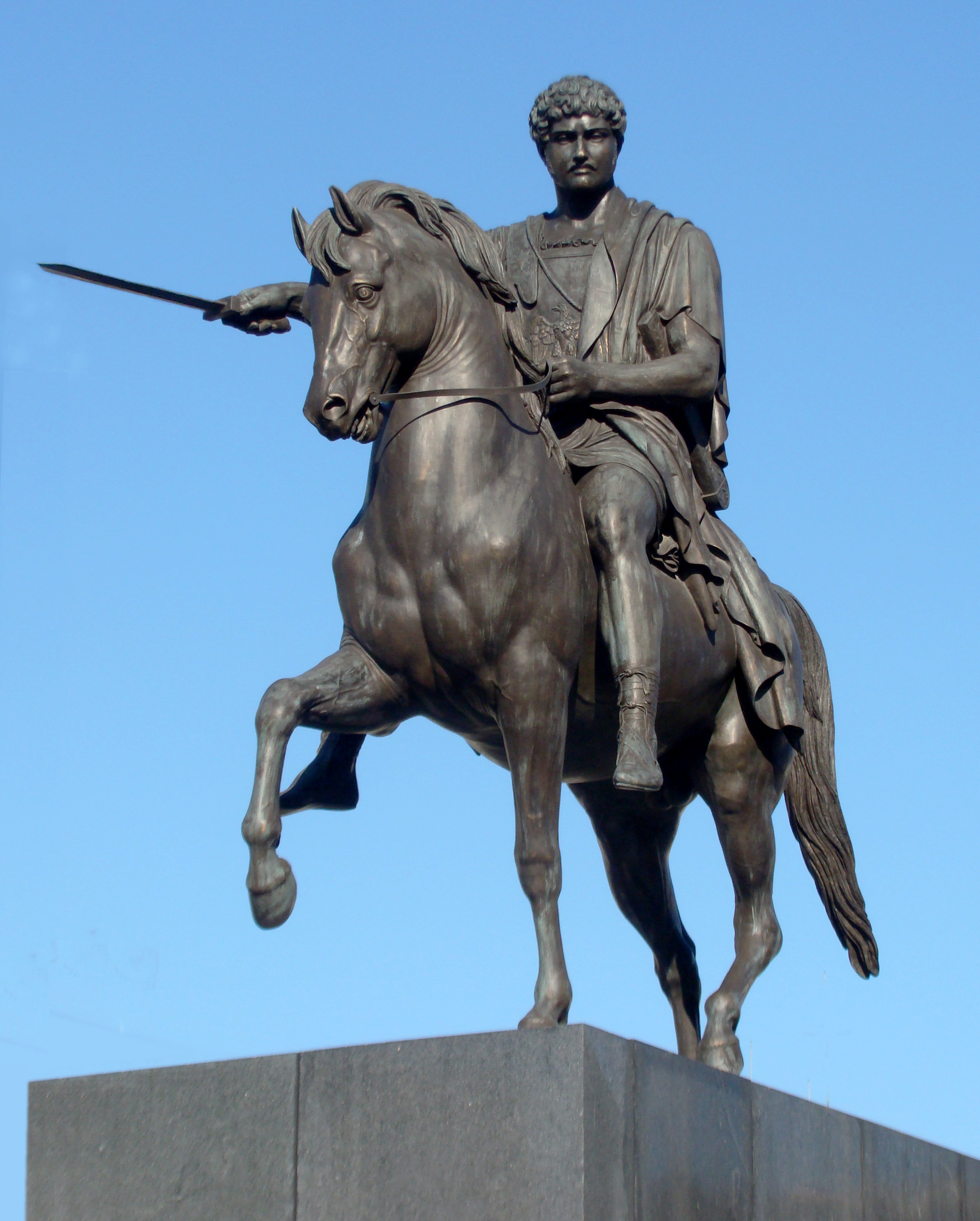 Monument of Count Joseph Poniatowski